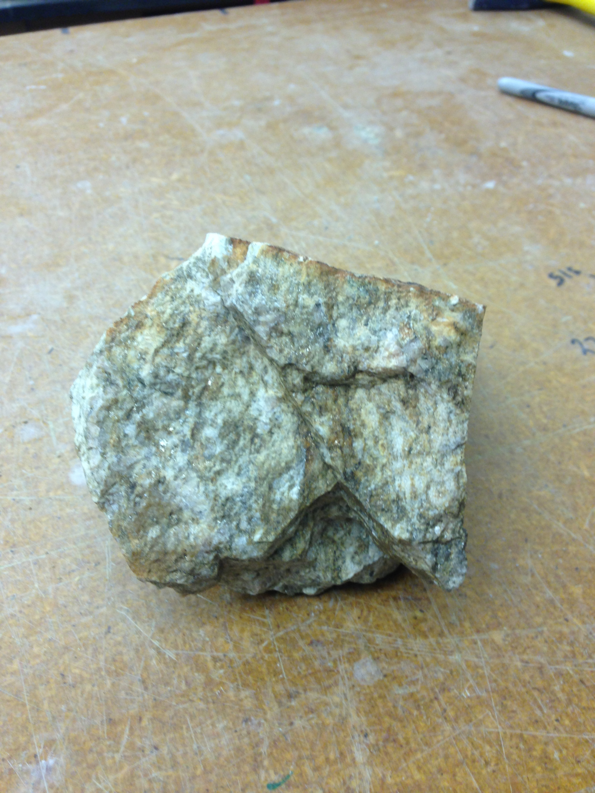 Granitic rock sample from Pilbara. Note the light/white/yellow color which distinguishes it from greenstones also found in that region.